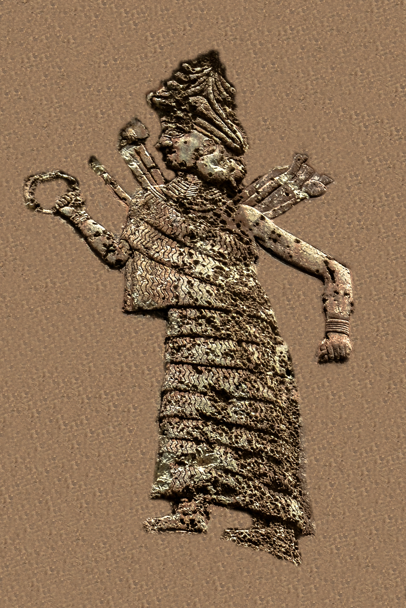 Anubanini relief constituents Ishtar